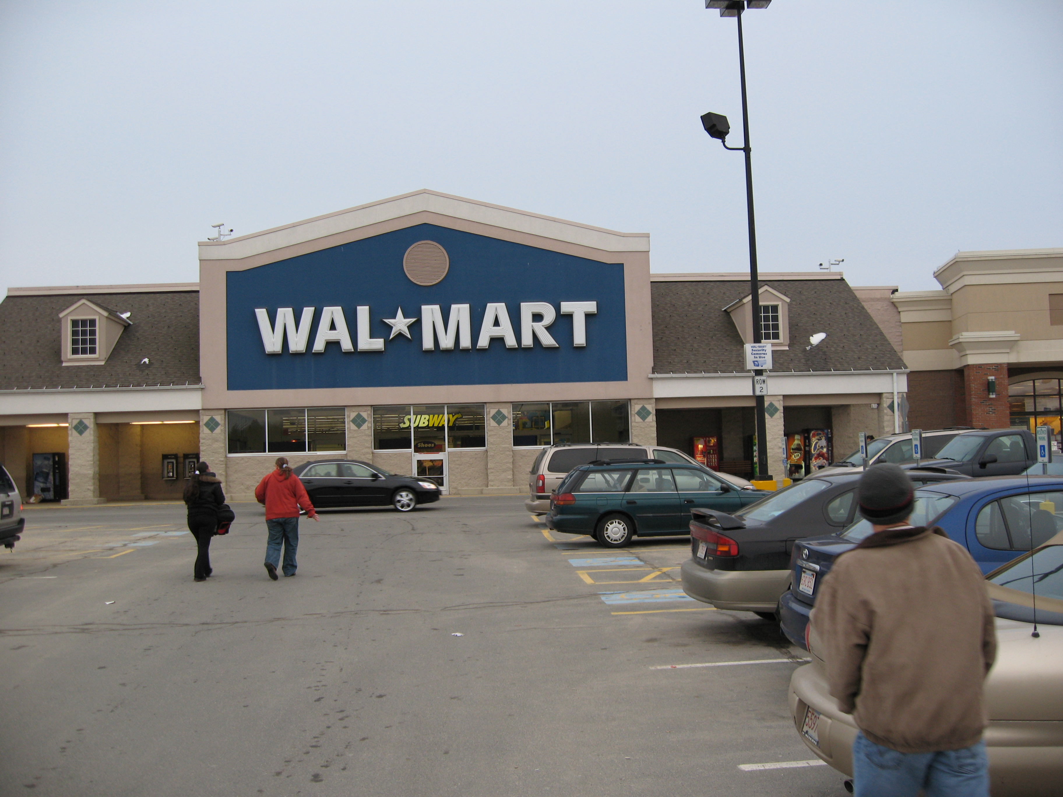 The Wal-Mart in the Mountain Farms Mall